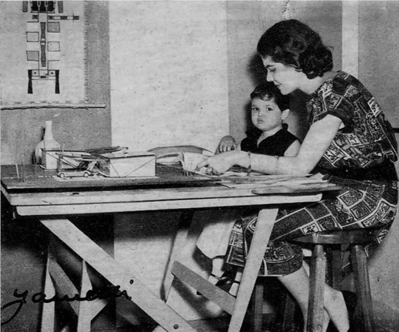 Architect Matilde Ponce Copado in 1958 with her son at her desk. Original caption: La joven y destacada Arquitecta Matilde Ponce Copado, acompañada de su hija, con su mesa de trabajo.